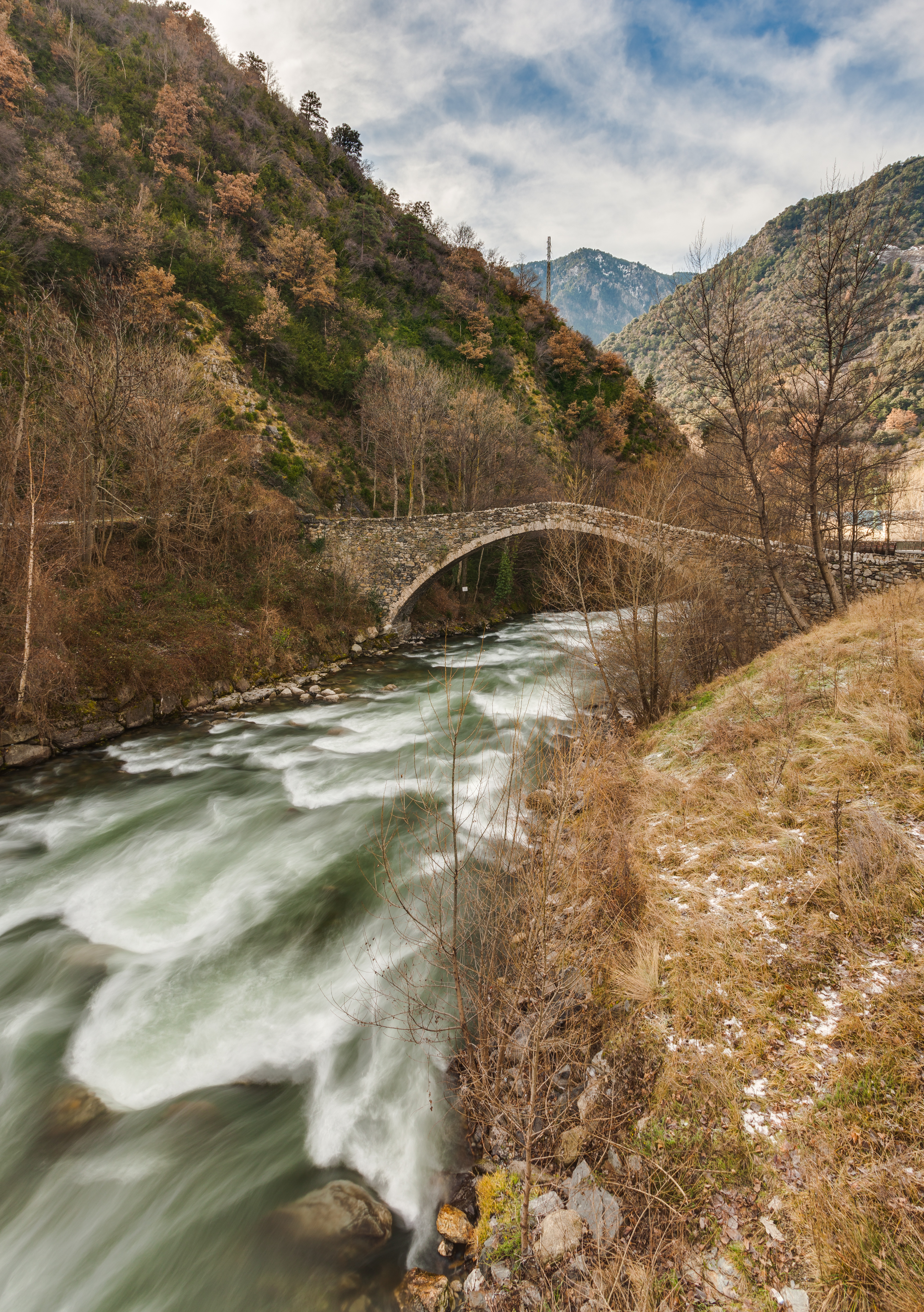 View of the Pont de la Margineda, a bridge located in Santa Coloma d'Andorra, Andorra la Vella Parish, Andorra. The bridge was built in the 14-15th century and spans the Gran Valira river (biggest in the country). The archstones are pumice, to keep the structure light whereas the walls are made of granite.